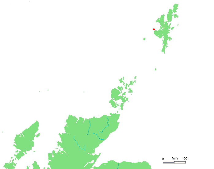 VK Papa Stour.PNG (Orkney and Shetland islands, UK)